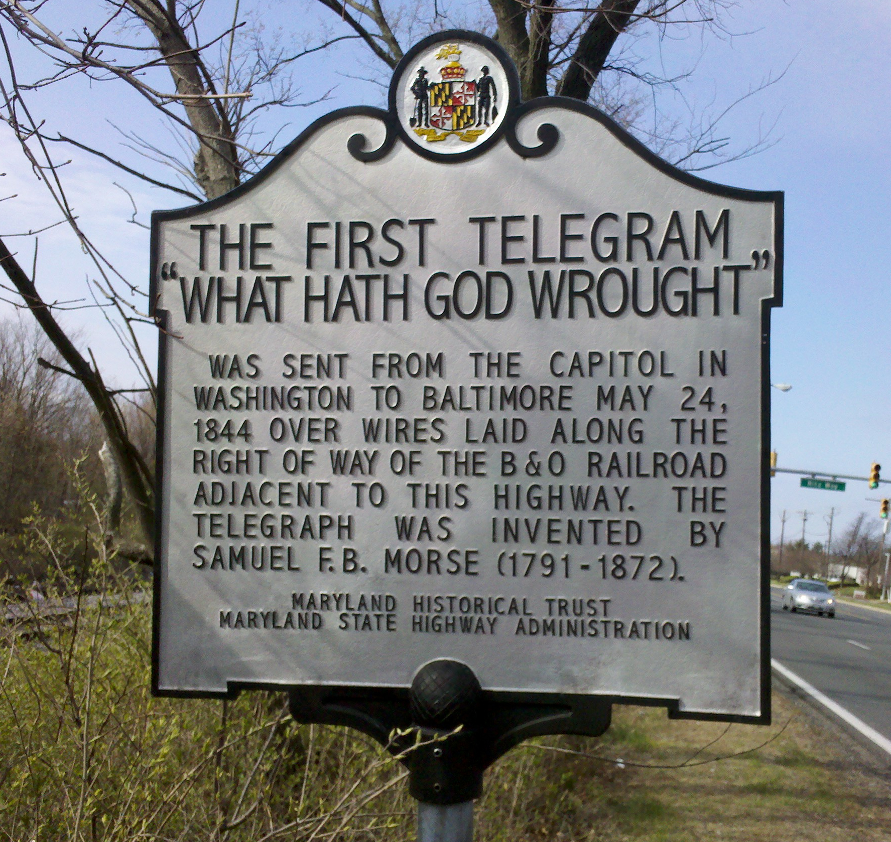 Maryland state historical marker commemorating the transmission of the first telegraph message by Samuel F. B. Morse on 1844-05-24. The marker is located between US Highway 1 and the CSX railroad tracks in Beltsville, Maryland.